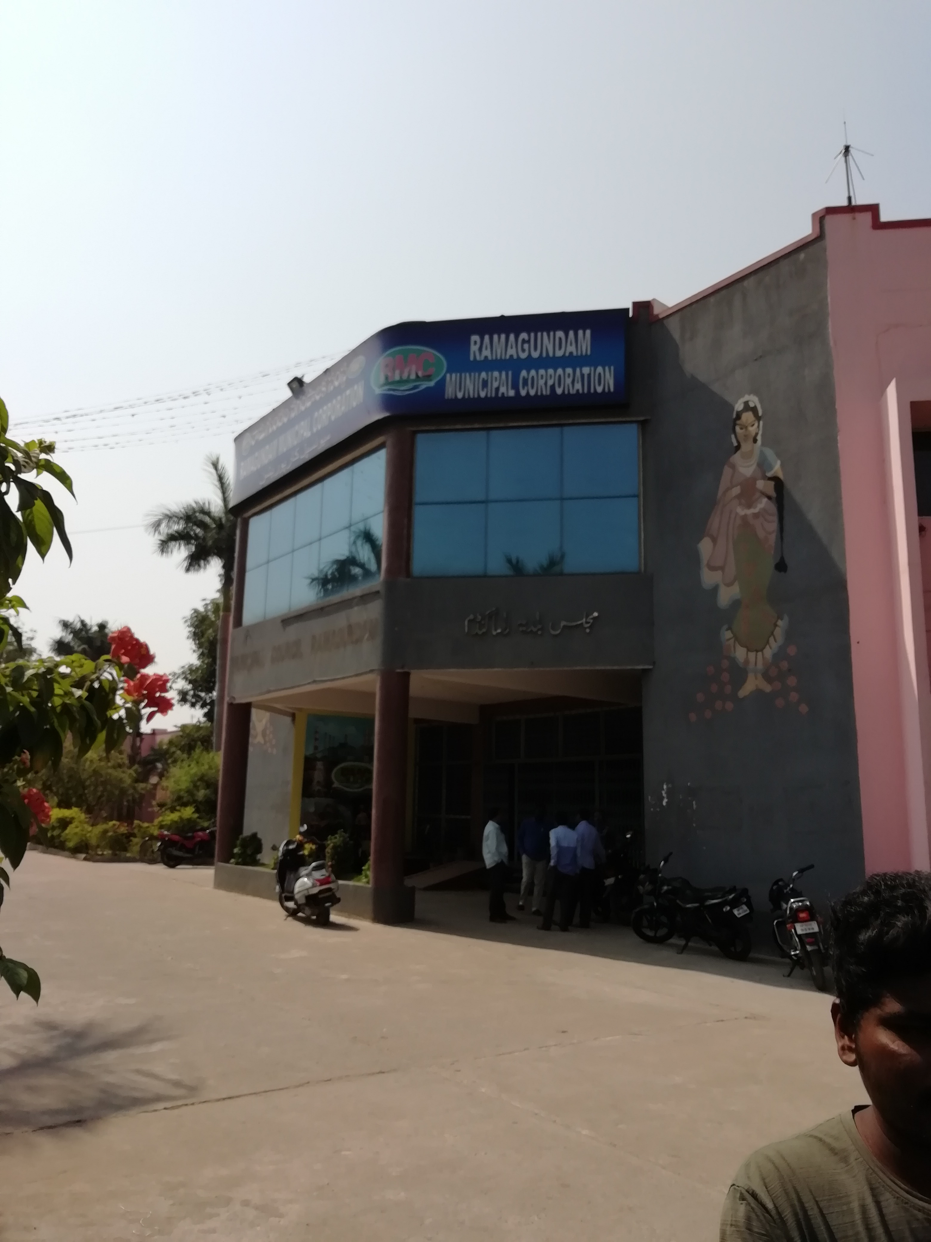 Ramagundam Municipal Corporation locate at Godavarikhani Town.